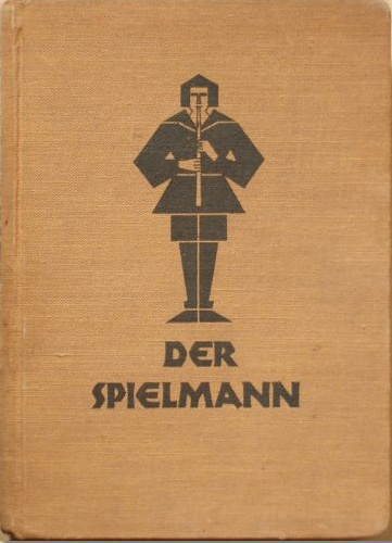 German Songbook "Der Spielmann" from 1932.